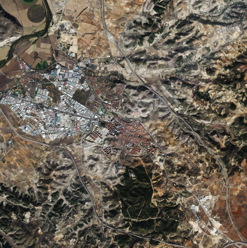 The diverse landscapes of the autonomous Community of Madrid in the heart of Spain are evident in this week’s image. The community and country’s capital city is visible near the centre of the image. Zooming in, we can see the Buen Retiro park just east of the city centre with its large, artificial pond. About 3.5 km due north sits the Santiago Bernabéu football stadium. Southeast of the stadium we can see another circular structure: the Las Ventas bullfighting ring. In the upper left corner of the image is the El Pardo mountain and protected natural park, which is popular for mountain biking. The other areas surrounding Madrid are blanketed with agricultural structures. East of the city are large fields along the Jarama river, and more areas of agriculture appearing brown further east still. This image, also featured on theEarth from Space video programme, was taken by the Sentinel-2A satellite on 16 November 2015. Launched in June 2015, Sentinel-2 can map changes in land cover such as forest, crops, grassland, water surfaces and artificial cover like roads and buildings in cities. Early results from the mission on mapping changes in land cover are expected to be presented at the upcoming Living Planet Symposium, held in Prague in May. The event brings together scientists and users to present their latest findings on Earth’s environment and climate derived from satellite data.